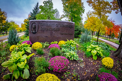 Welcome Sign